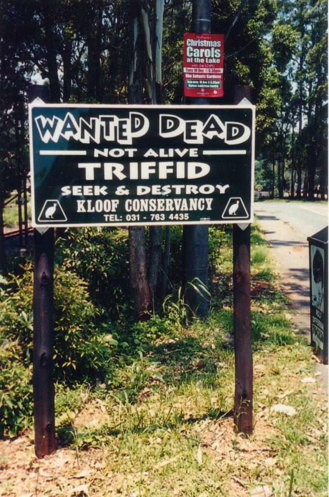 scanned photograph of sign encouraging the removal of the weed Chromolaena Odorata - commonly known as a Triffid. Taken in Kloof, South Africa.